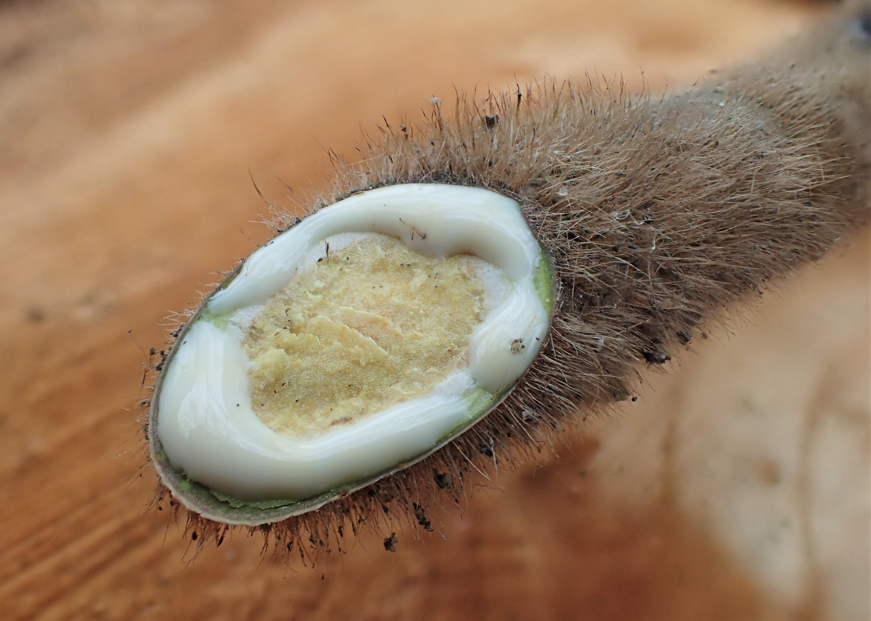 Shoot cut with milky sap of Rhus typhina. Police near Szczecin, NW Poland